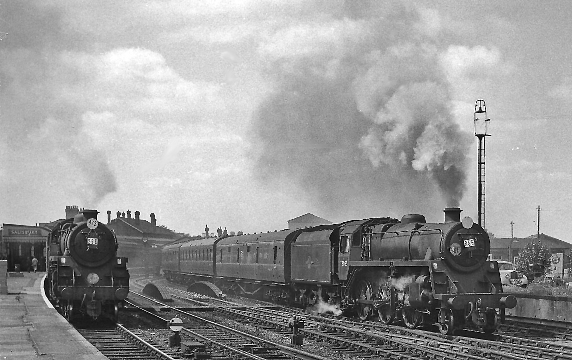 BR Standard 2-6-0s at Salisbury. View westward, towards Exeter on the ex-LSW Waterloo - Exeter etc. main line, towards Westbury on the GWR. BR Standard 4MT 2-6-0 No. 76065 (built 7/56, withdrawn 10/65) is leaving on the 09.32 Summer Saturdays Cardiff - Pokesdown, which will turn right off the London line and right again at Alderbury Junction to reach Pokesdown via Wimborne, Poole and Bournemouth Central. On the left is No. 76064 of the same class (built 7/56 but survived until 7/67) on a train for Waterloo.